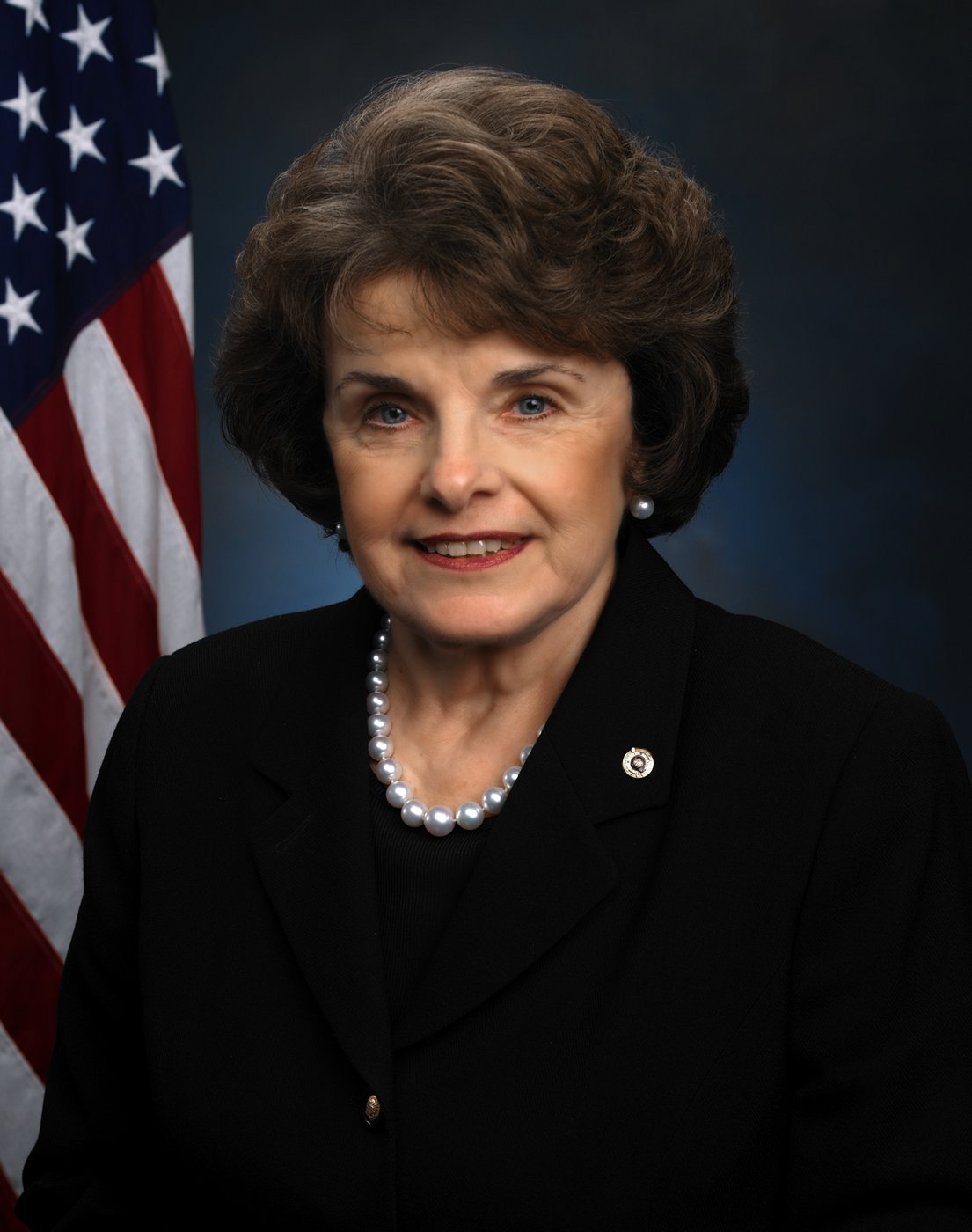 Dianne Feinstein, member of the United States Senate.